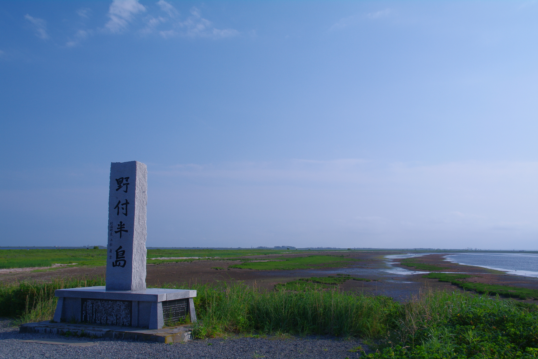 Betsukai town Notsuke peninsulas, Hokkaido